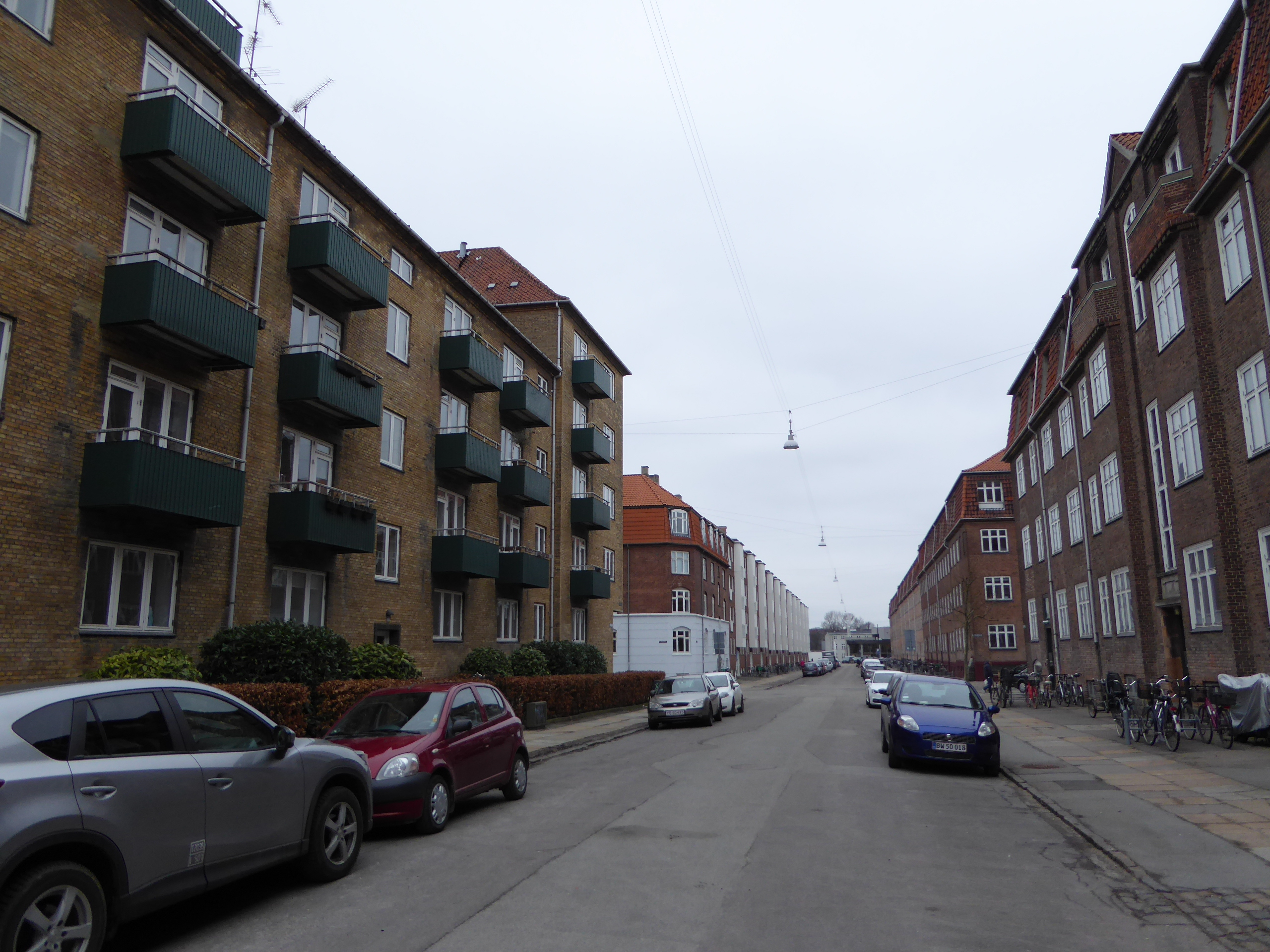 The street Slangerupgade in Nørrebro in Copenhagen.